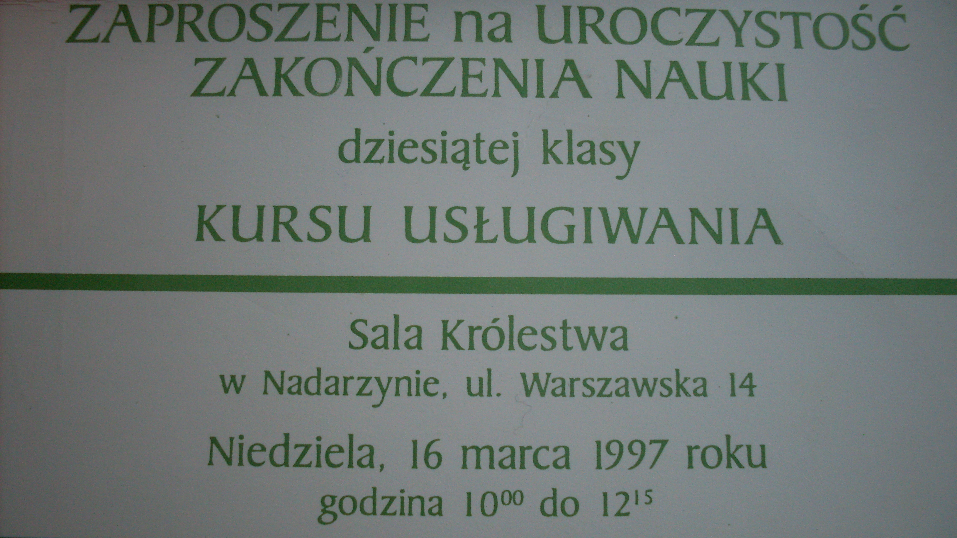 Ministerial Training School